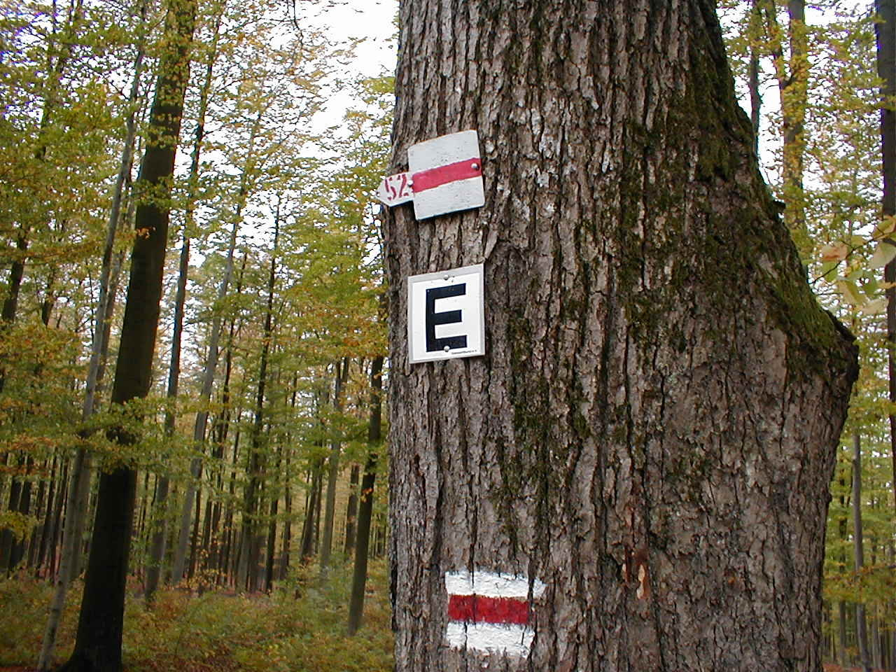 Tail blaze, orientation mark of "Eselsweg" hiking path in the Spessart mountains, not far from "Echterspfahl", photo shot by myself, GNU-FDL